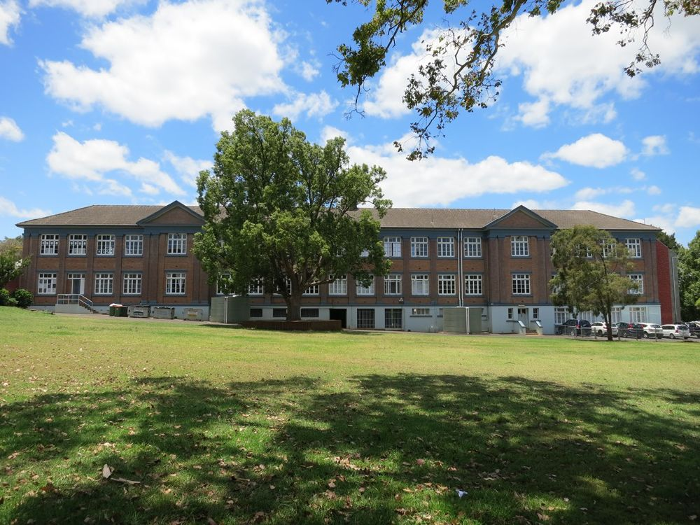 Play area and southern elevation of Brick School Building